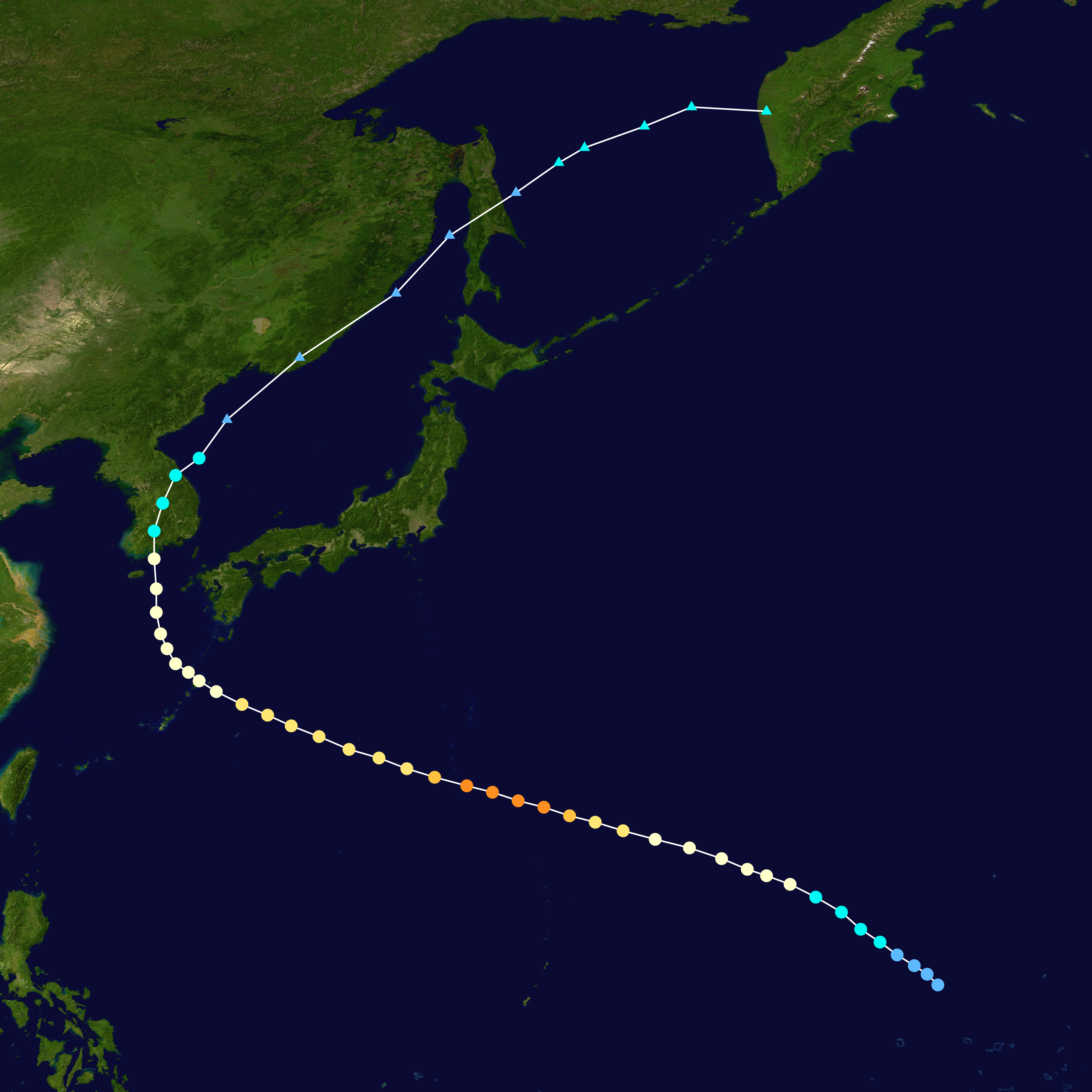 Typhoon Rusa (2002) track. Uses the color scheme from the Saffir-Simpson Hurricane Scale.